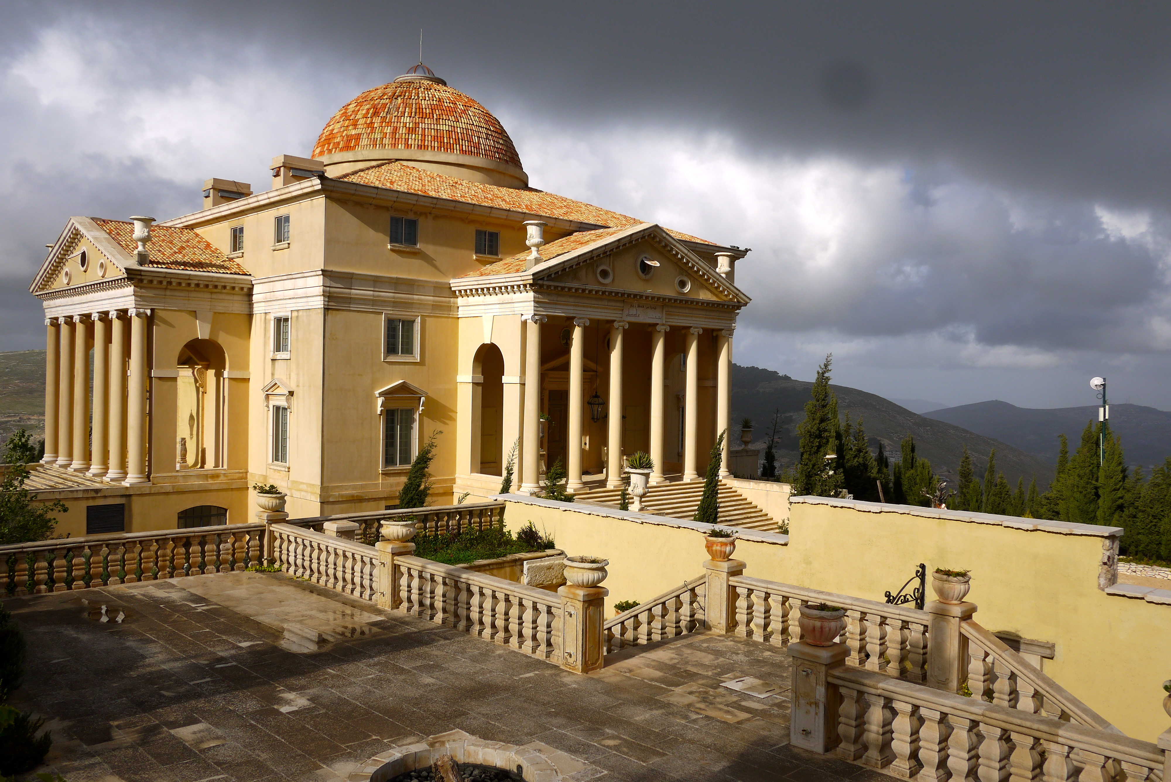 Visit to the very big and beautiful house of Munib al-Masri, the Duke of Nablus. Just Bijannen.